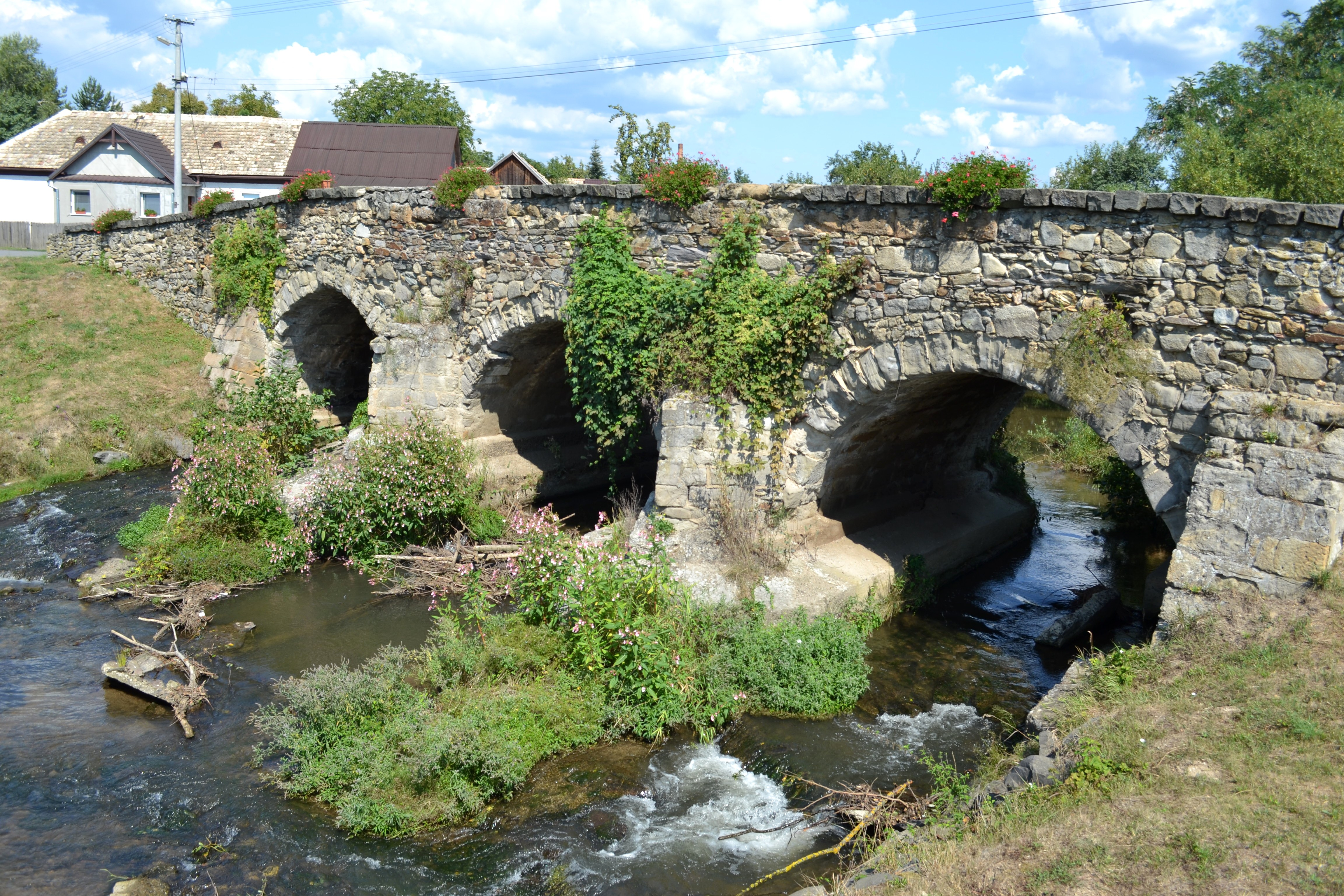 Turkish bridge over the river Ipel Poltár in the south of Slovakia is the third oldest preserved bridge of its kind in Slovakia. Most come from the period of Turkish rule over the region in the years 1554-1593.